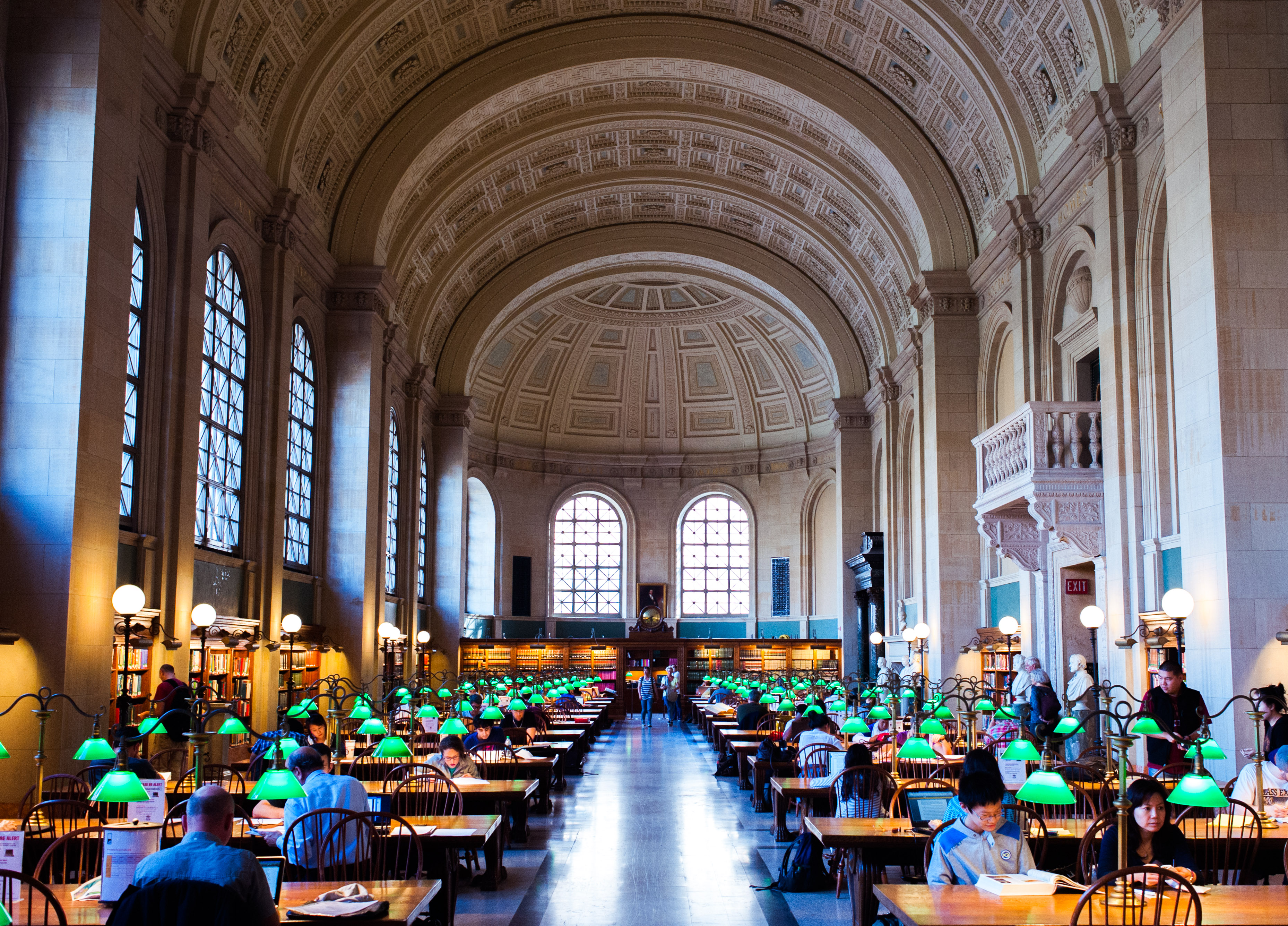 Boston Public Library Reading Room